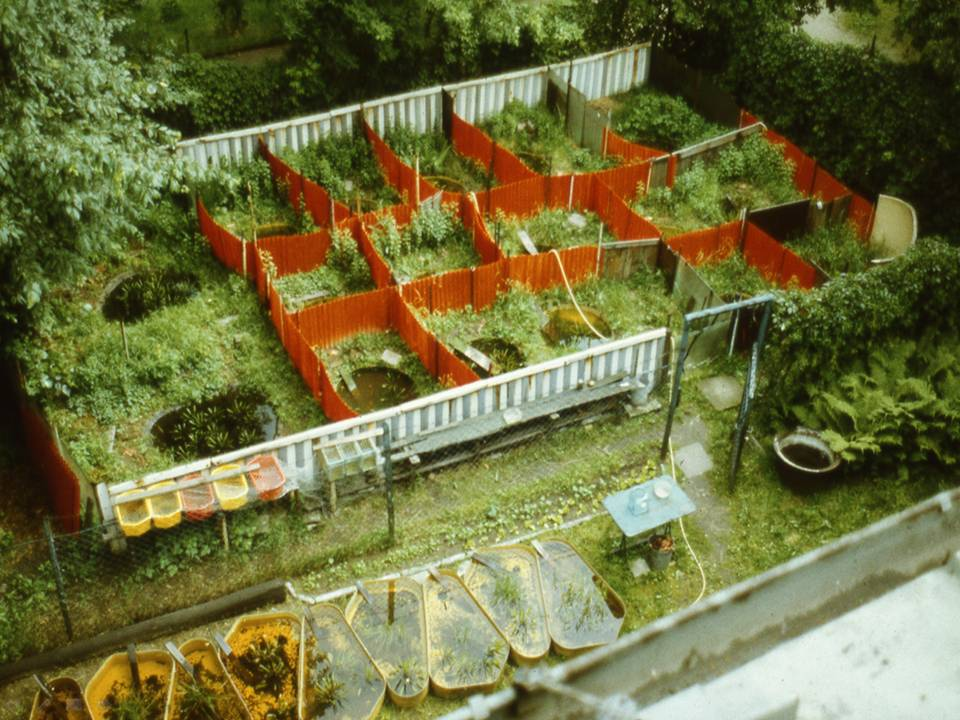 Breeding frogs in Poznań, Poland